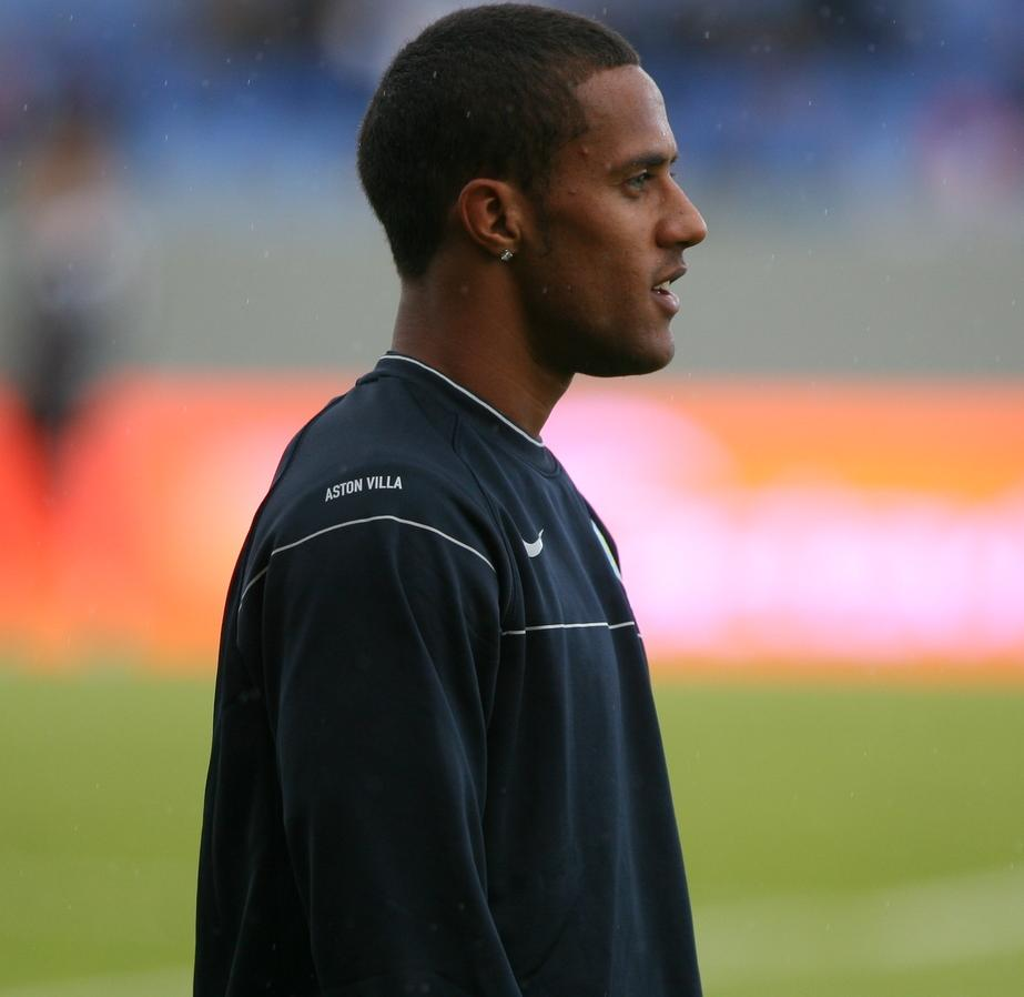 Wayne Routledge This file has been extracted from another file: Wayne Routledge Aston Villa vs FH.jpg